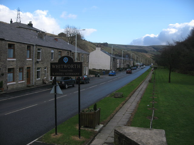 Whitworth Boundary Sign on Rochdale Road Looking South East down the A671 Rochdale Road. The old Rochdale to Bacup railway line used to run down the right hand side of the picture. When it was built in the 19th century, the line was the highest on the Lancashire and Yorkshire Railway's network It closed to passengers on 16 June 1947. The line remained open to goods traffic until the mid 1960s but by the end of 1967 the line no longer existed. Anniversary of last passenger trains